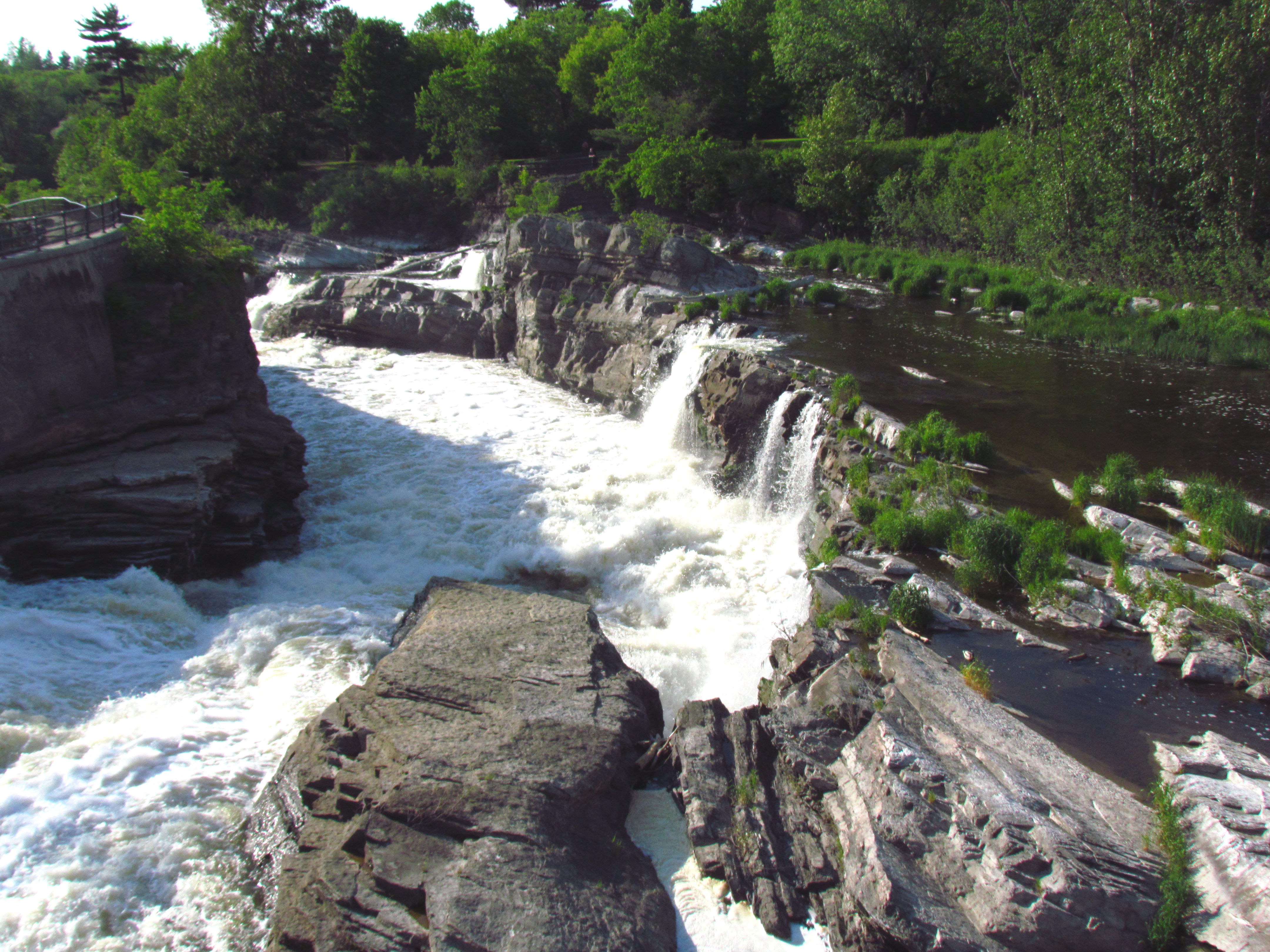 Lower portion of Hog's Back Falls, Rideau River, Ottawa, Ontario, Canada